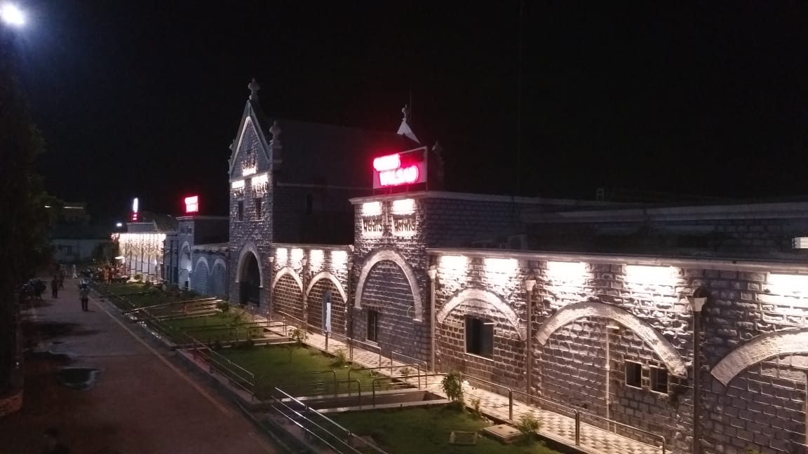 Valsad Station Building: Sparkling with LED Lights